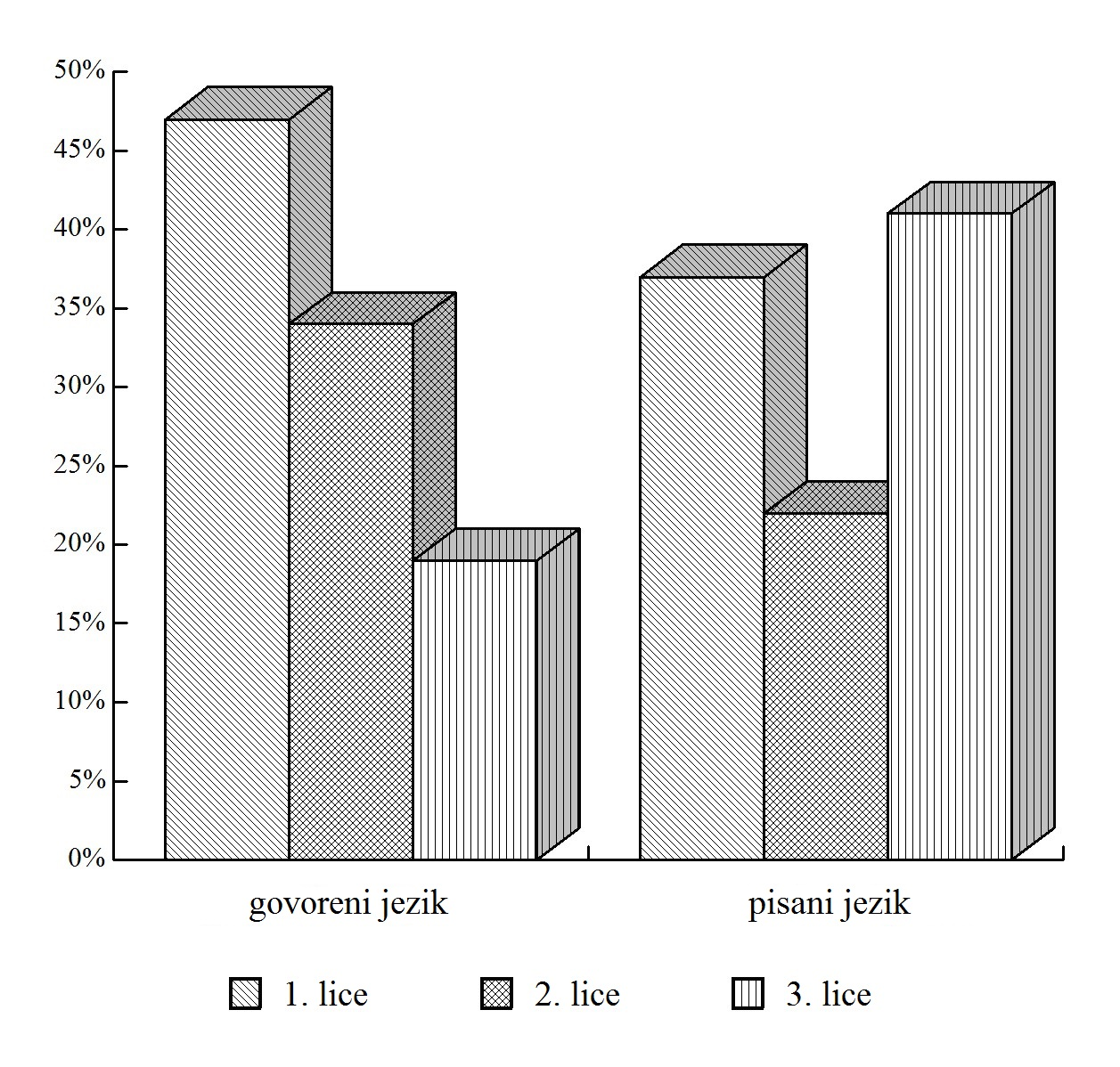 Serbo-Croatian translation of the file File:Personal pronouns.jpg